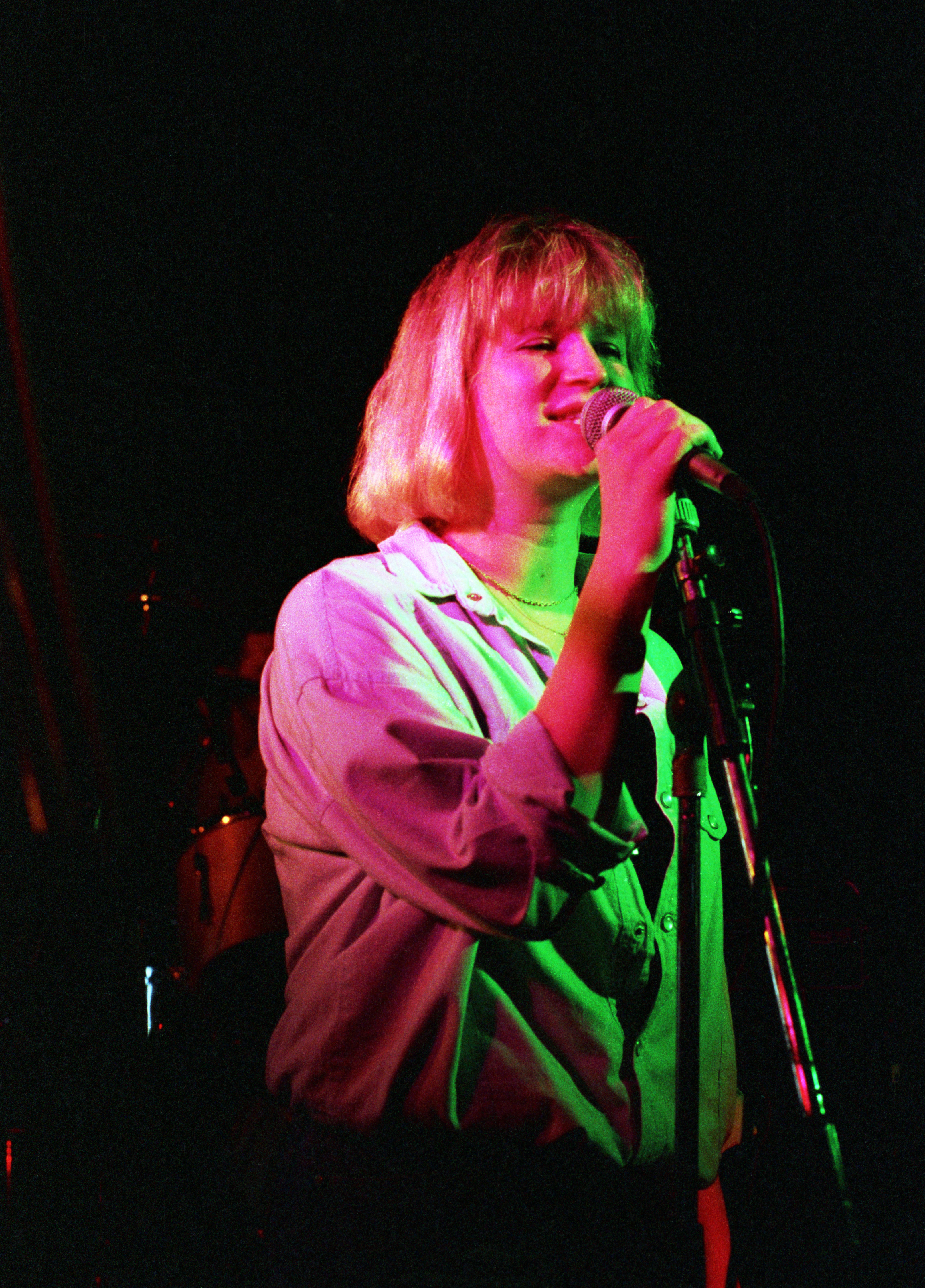 Lisa Palfrey, Tanjimei. Roc Ystwyth concert, Aberystwyth, 1987. Image by Medwyn Jones